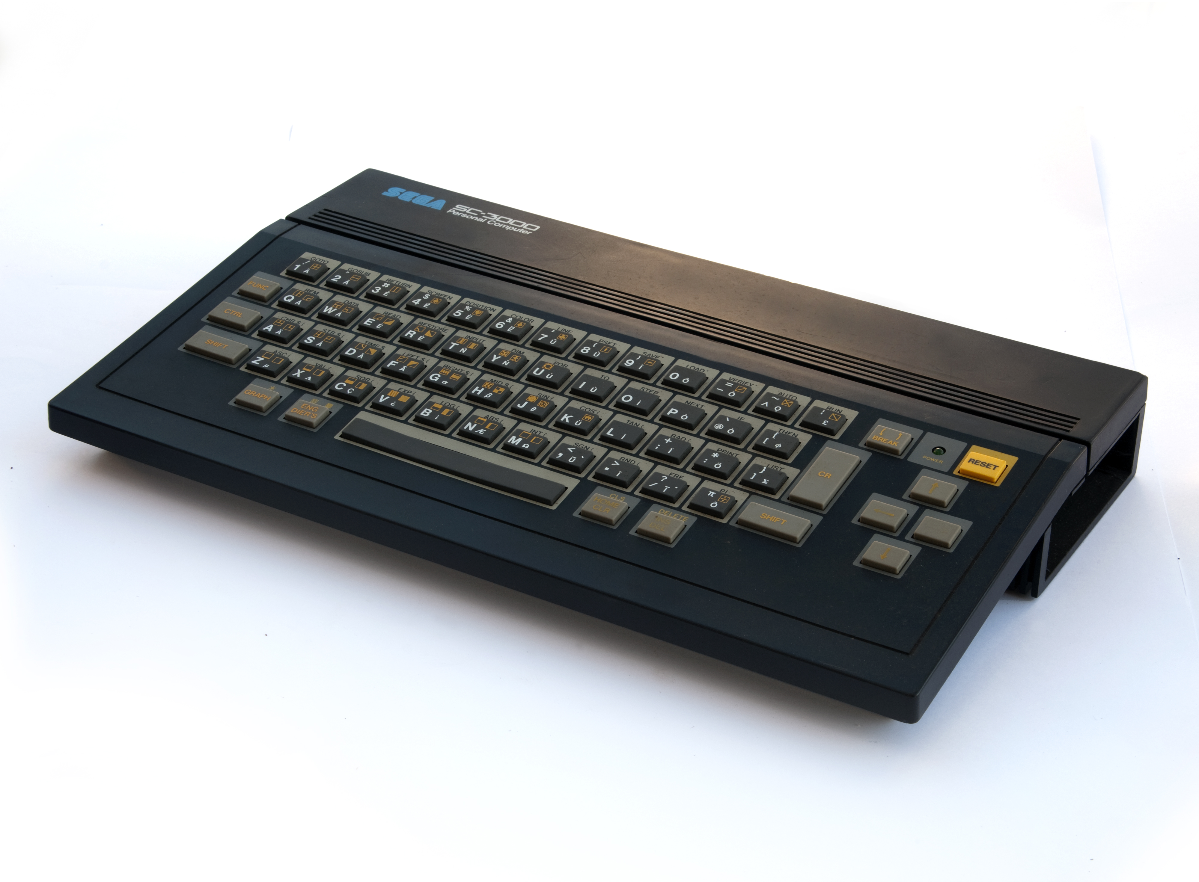 A Sega SC-3000 microcomputer.